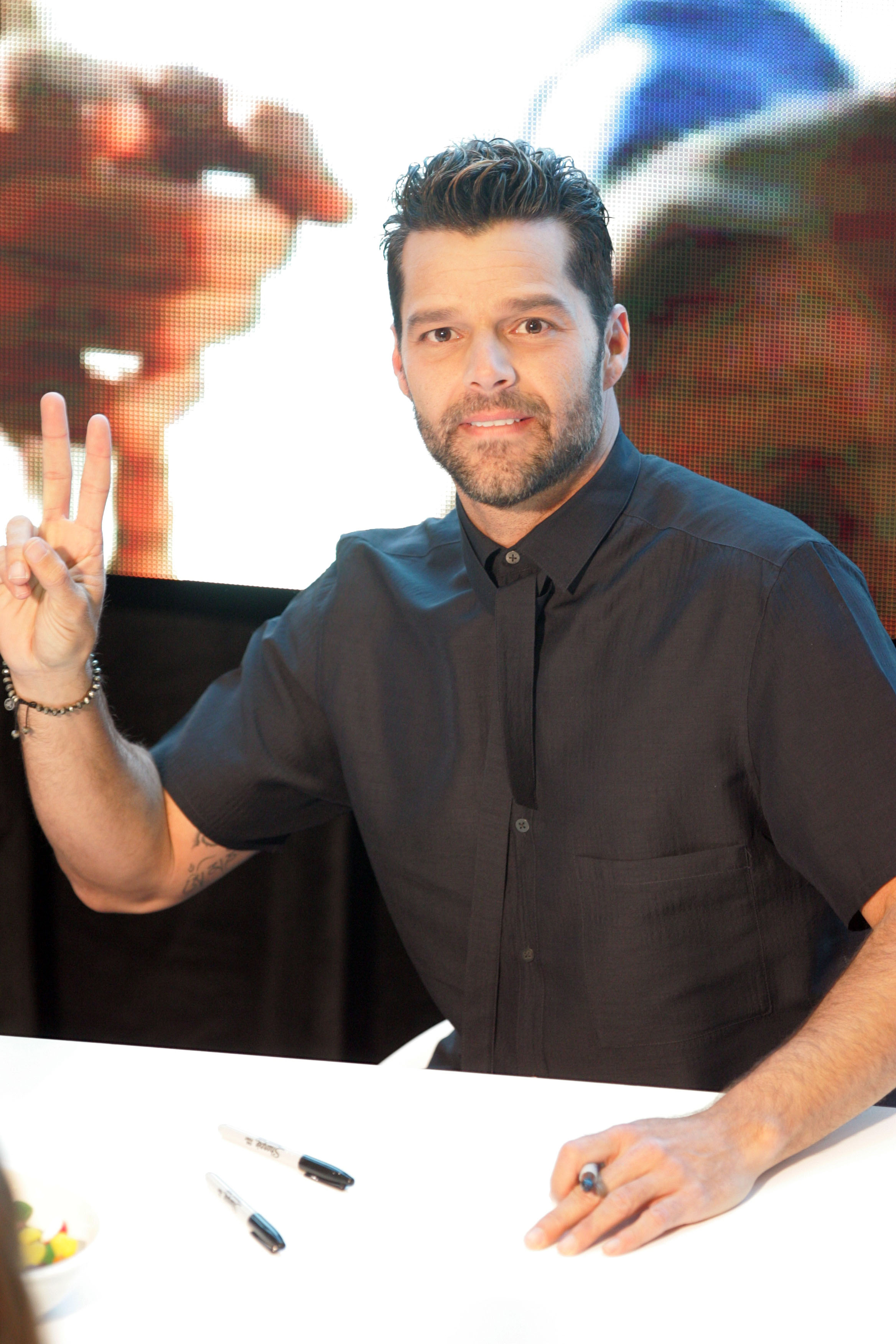 Ricky Martin in store appearance, Westfield Hurstville, Sydney Australia